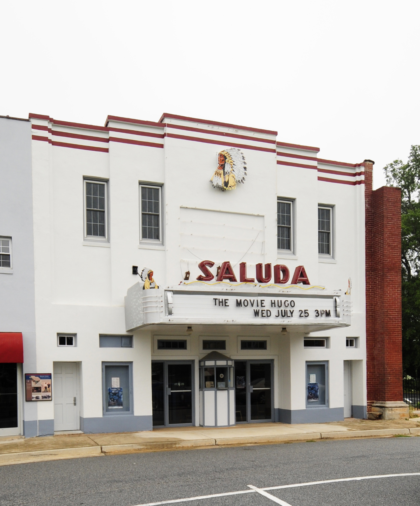 Saluda Theatre